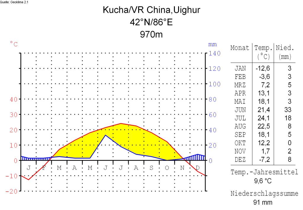 climate chart in the format by Walter and Lieth, metric, °Celsisus and millimeters, made with Geoklima 2.1